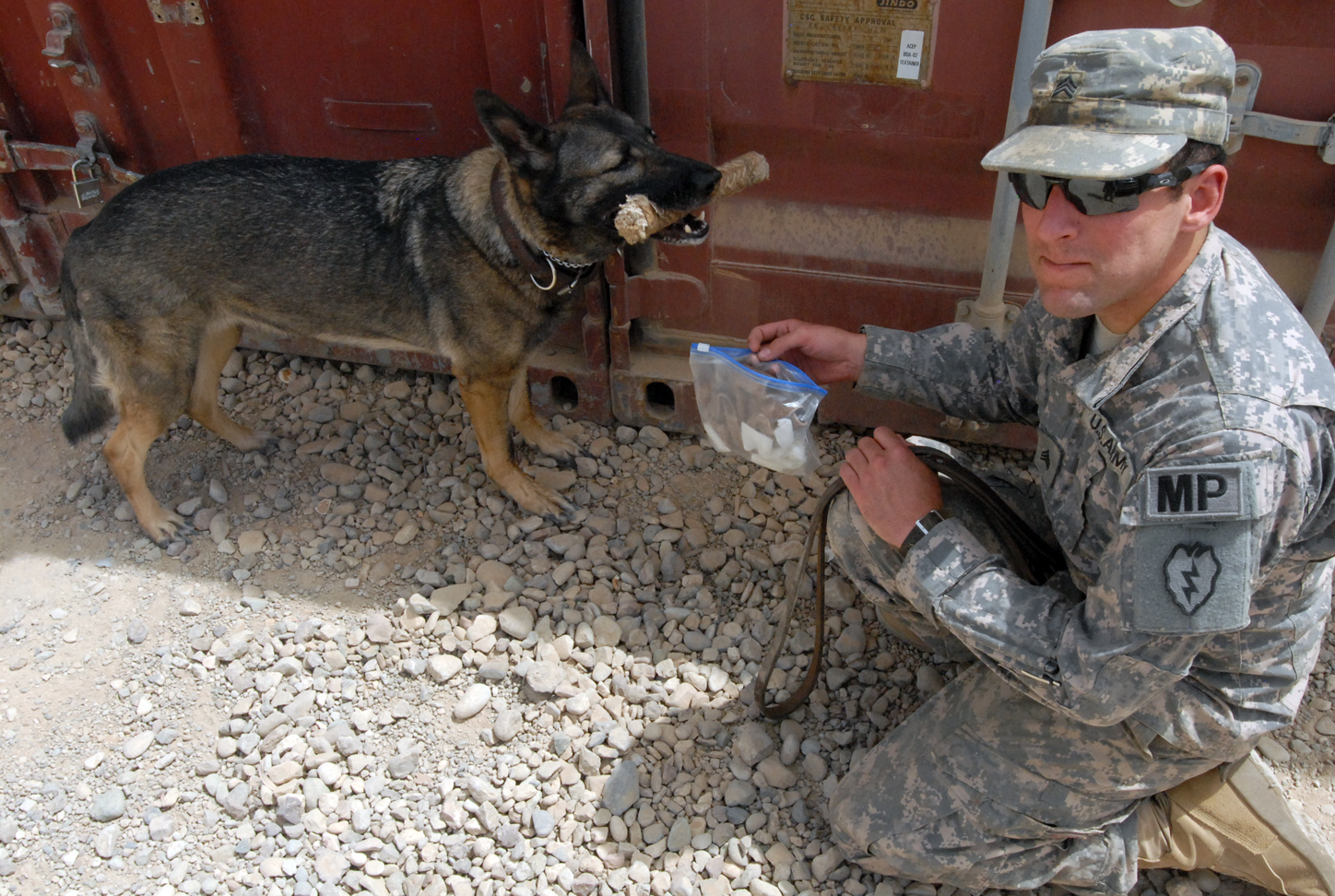 Sgt. Henry Rabs, a Mendon, Mass., native and a military working dog handler, and Capka, a military working dog, demonstrate how the dogs can sniff out narcotics during a demonstration at Forward Operating Base Warrior in Kirkuk, Iraq Aug. 1. The demonstration was to not only entertain Soldiers but to educate leaders on the capabilities of the military working dog. See more at Military working dogs give Soldiers run for their money